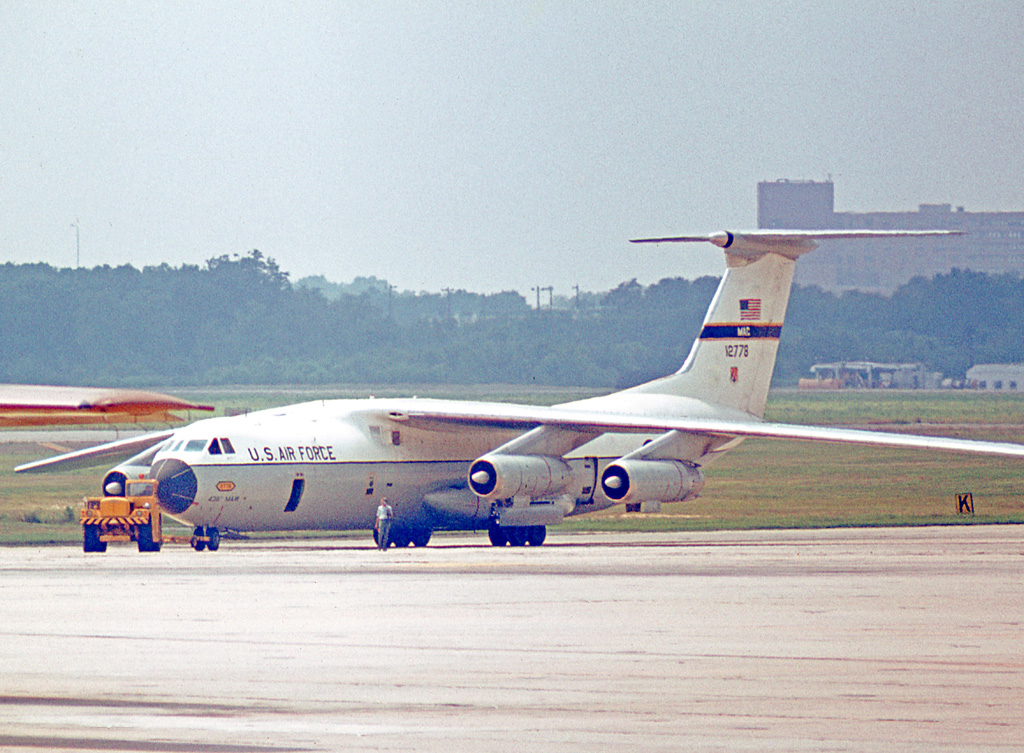 Lockheed C-141A Starlifter 61-2778 of 438 Military Airlift Wing in 1970